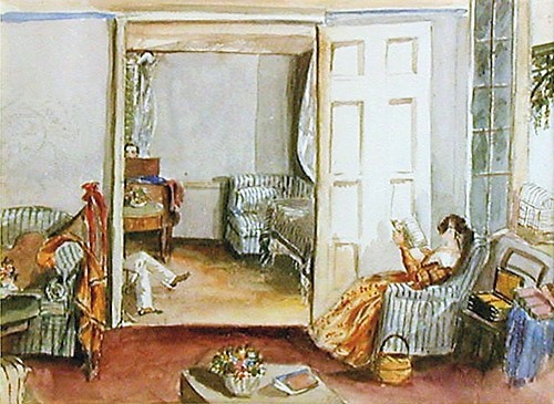 The Interior of the Seigniory House at Beauharnois, Lower Canada, 1838